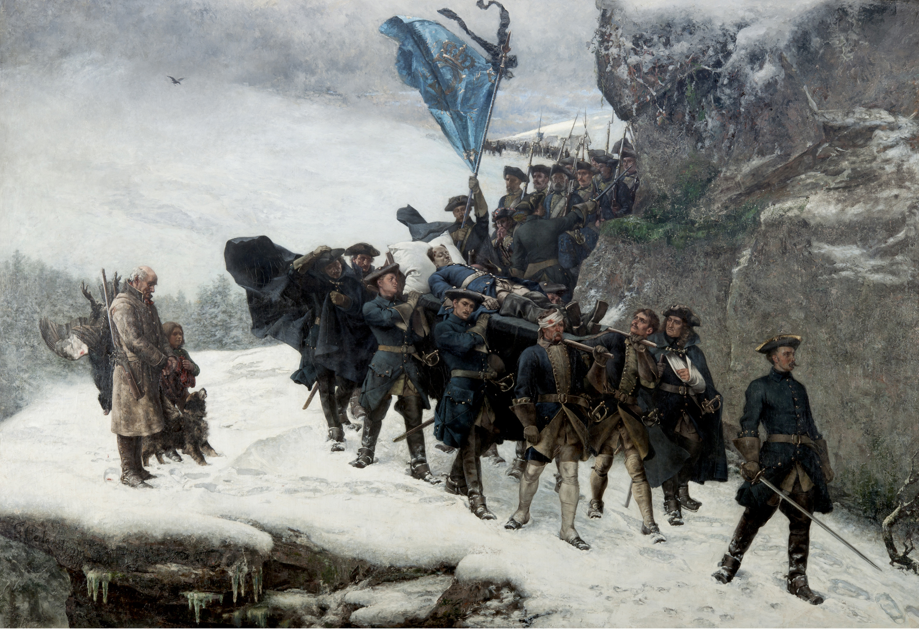 The Body of Charles XII of Sweden being carried home from Norway.label QS:Len,"The Body of Charles XII of Sweden being carried home from Norway." label QS:Lsv,"Karl XII:s likfärd"